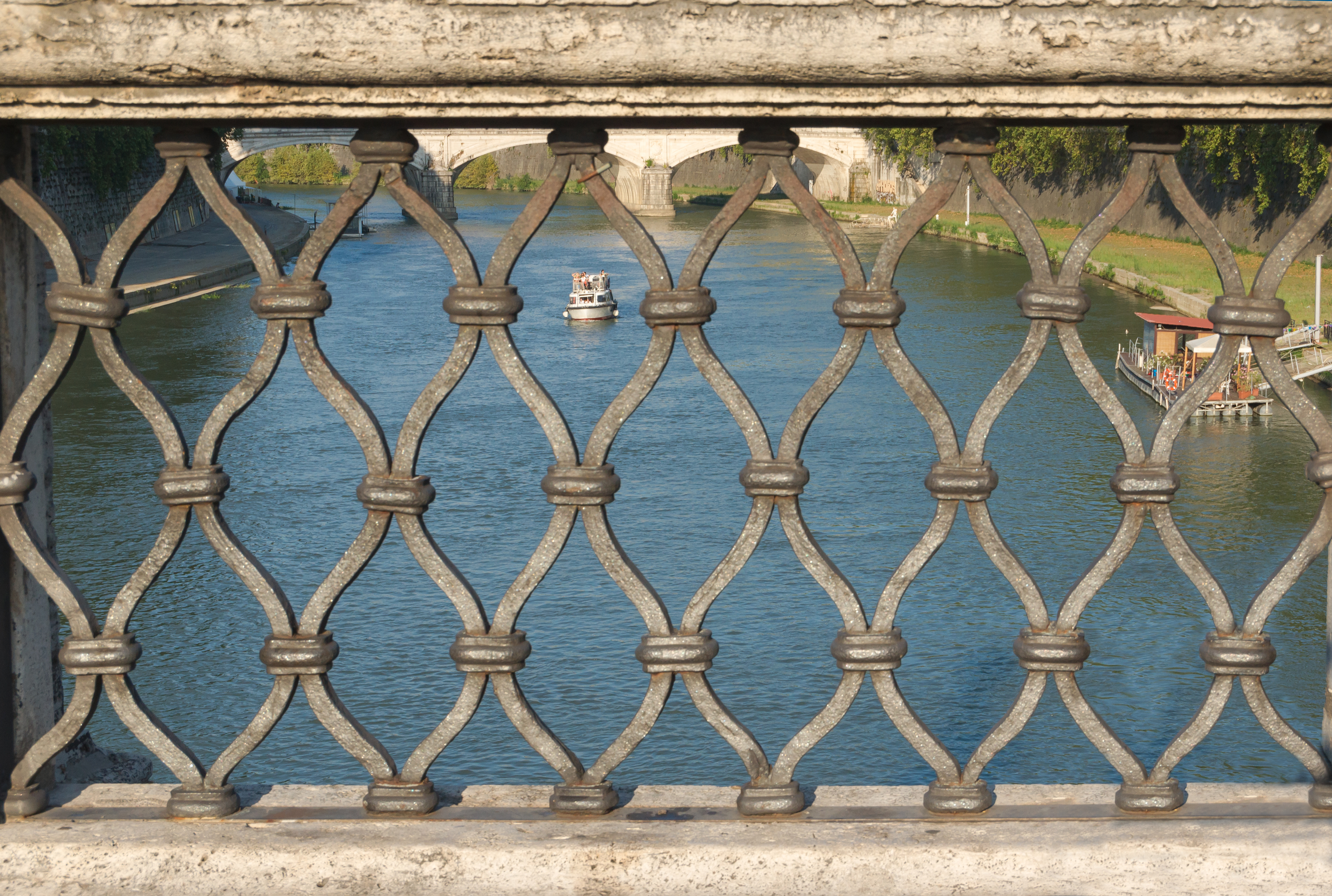 Tiber river, as seen from (through ?) Sant'Angelo Bridge, Rome, Italy.